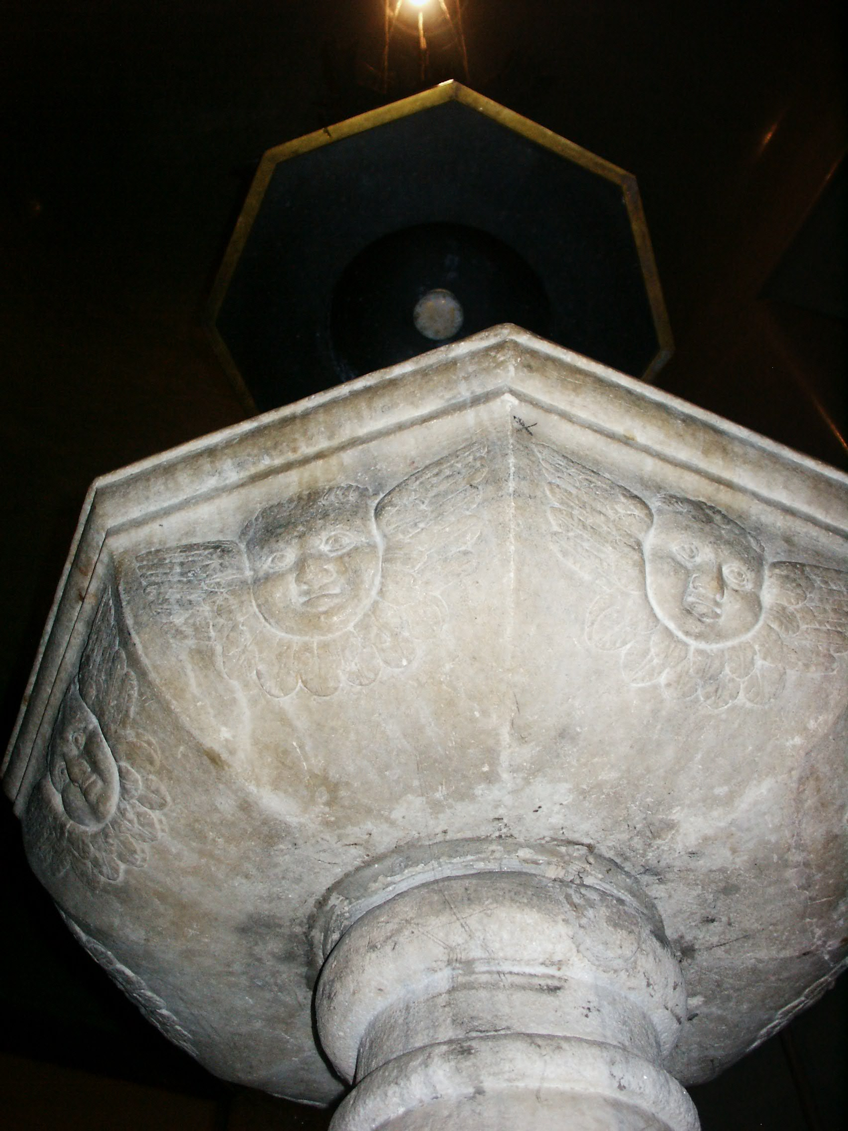 Church of St. Vito, Lomazzo